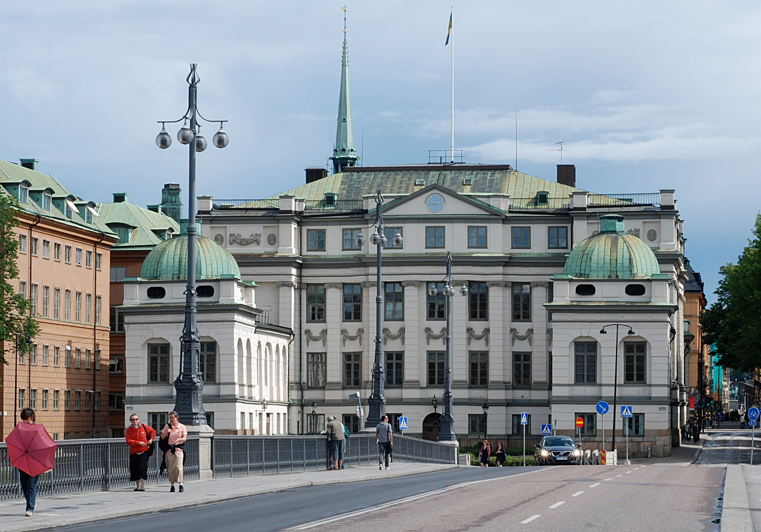 The Bonde Palace (Swedish Bondeska palatset) is a palace in Gamla stan, the old town in central Stockholm, Sweden. Originally design by Nicodemus Tessin the Elder and Jean De la Vallée in 1662-1667 as the private residence of the Lord High Treasurer of Sweden Gustaf Bonde (1620–1667) it still bears his name, while it accommodated the Stockholm Court House from the 18th century and since 1949 houses the Supreme Court of Sweden. Source: Bonde Palace